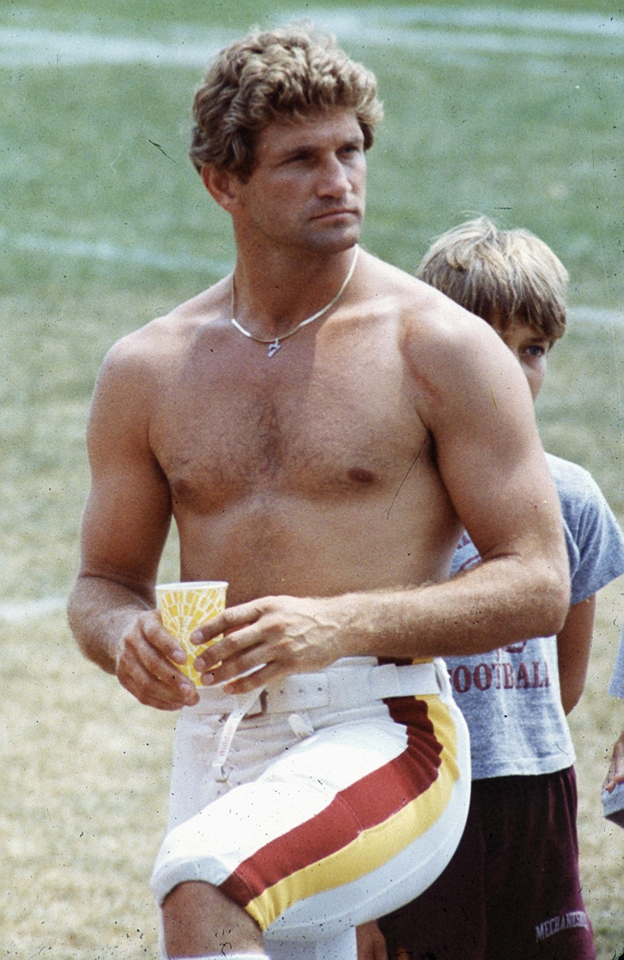 Washington Redskins National Football League quarterback Joe Theismann. Photo by Ted Van Pelt